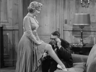 Cropped screenshot of Marilyn Monroe and Cary Grant from the trailer for the film Monkey Business